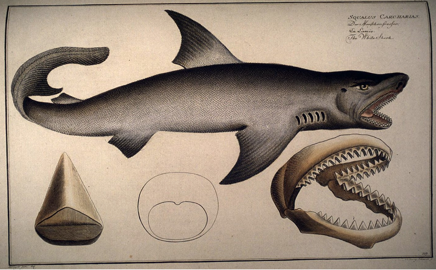 Carcharodon carcharias syn. Squalus carcharias